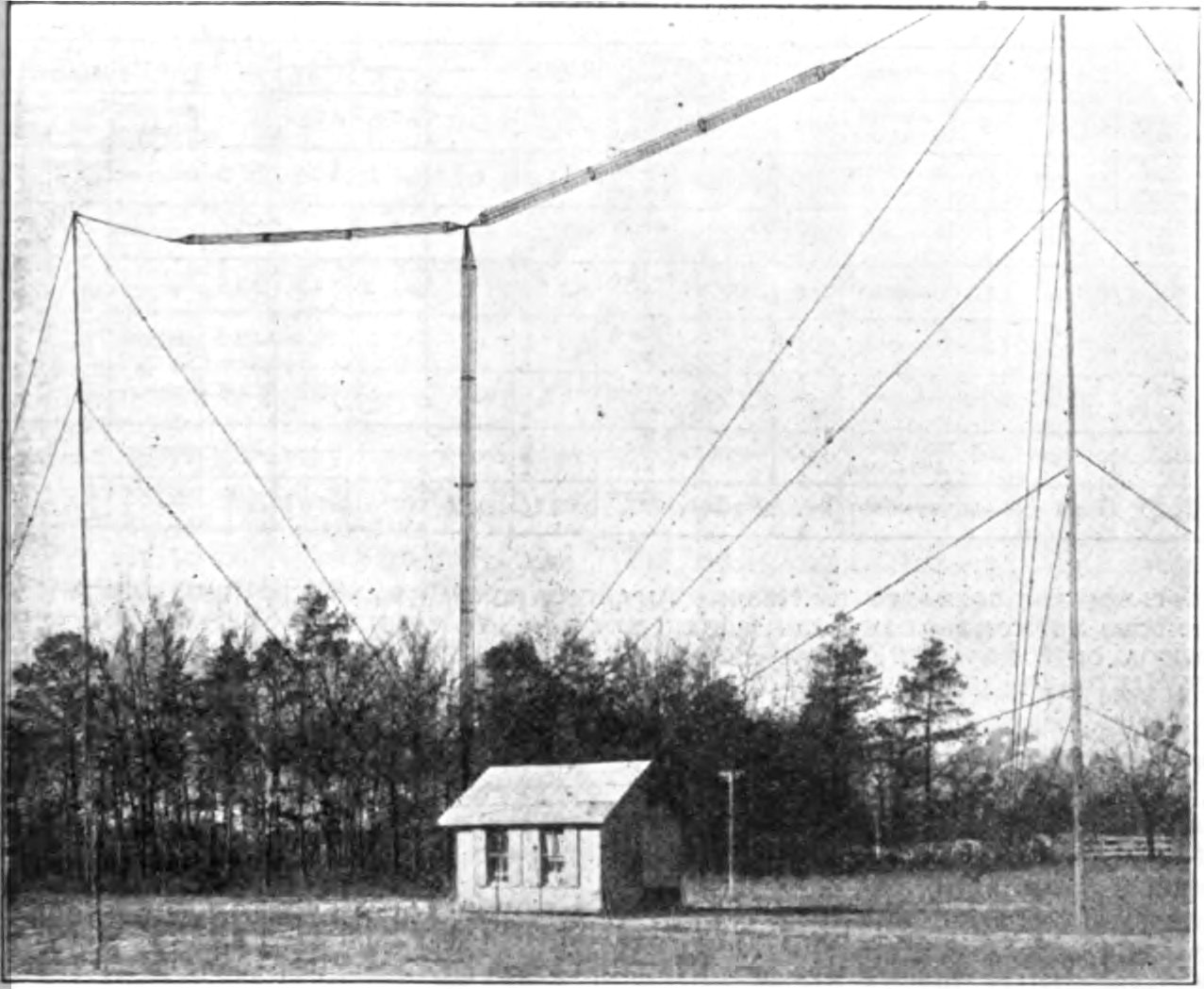 Transmitting antenna of amateur radio station 2BML and 2EH in 1922, belonging to the Radio Engineers Club of Riverhead, New York, USA. This type of wire antenna, called a cage T antenna, was commonly used for transmitting on MF and LF frequencies. It consists of a conductor in the form of a "T", 60 ft high and 90 ft wide, suspended beween two masts. The conductor is made of a "cage" of six parallel wires held apart with wood spreaders. The vertical line extending upward from the transmitter shack radiates the radio waves, while the horizontal part is a capacitive "top-load" which increases the current in the vertical part. The multiwire "cage" construction serves to increases the capacitance to ground and decrease the resistance, further increasing the antenna current and radiated power. The ground of the transmitter was attached to a "counterpoise", a horizontal wire suspended a few feet above the ground under the antenna. It achieved transatlantic contacts to Scotland on 200 meters (1.5 MHz) at a radiated power of 440W. The antenna resistance is 7 ohms and the efficiency is 67%. Alterations to image: Removed dark tint to sky in left side of photo using GIMP editor.